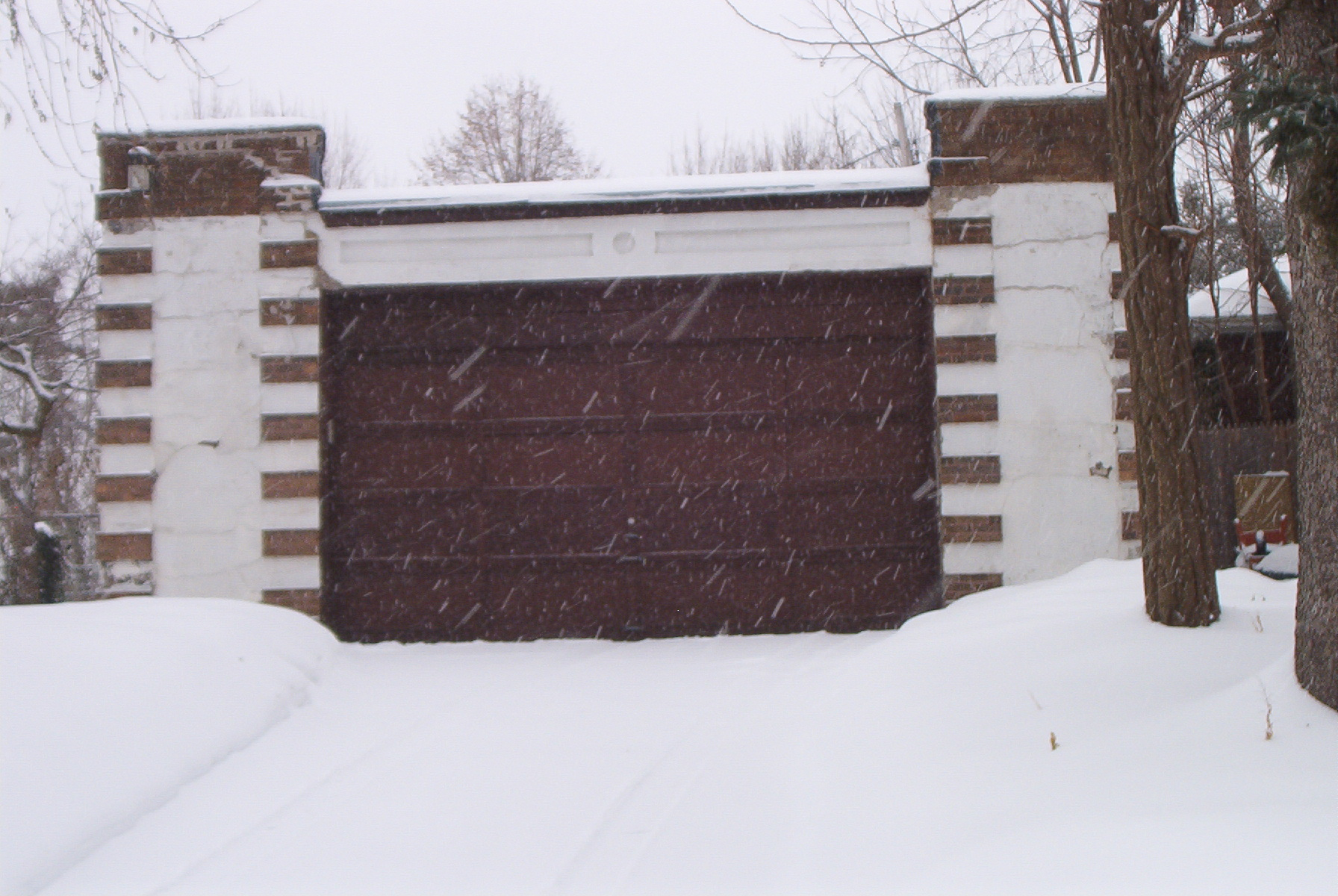 Fairchild House, 111 Clairmonte Avenue, Syracuse, New York. Garage, designed as was house, by Ward Wellington Ward. Pic 4.